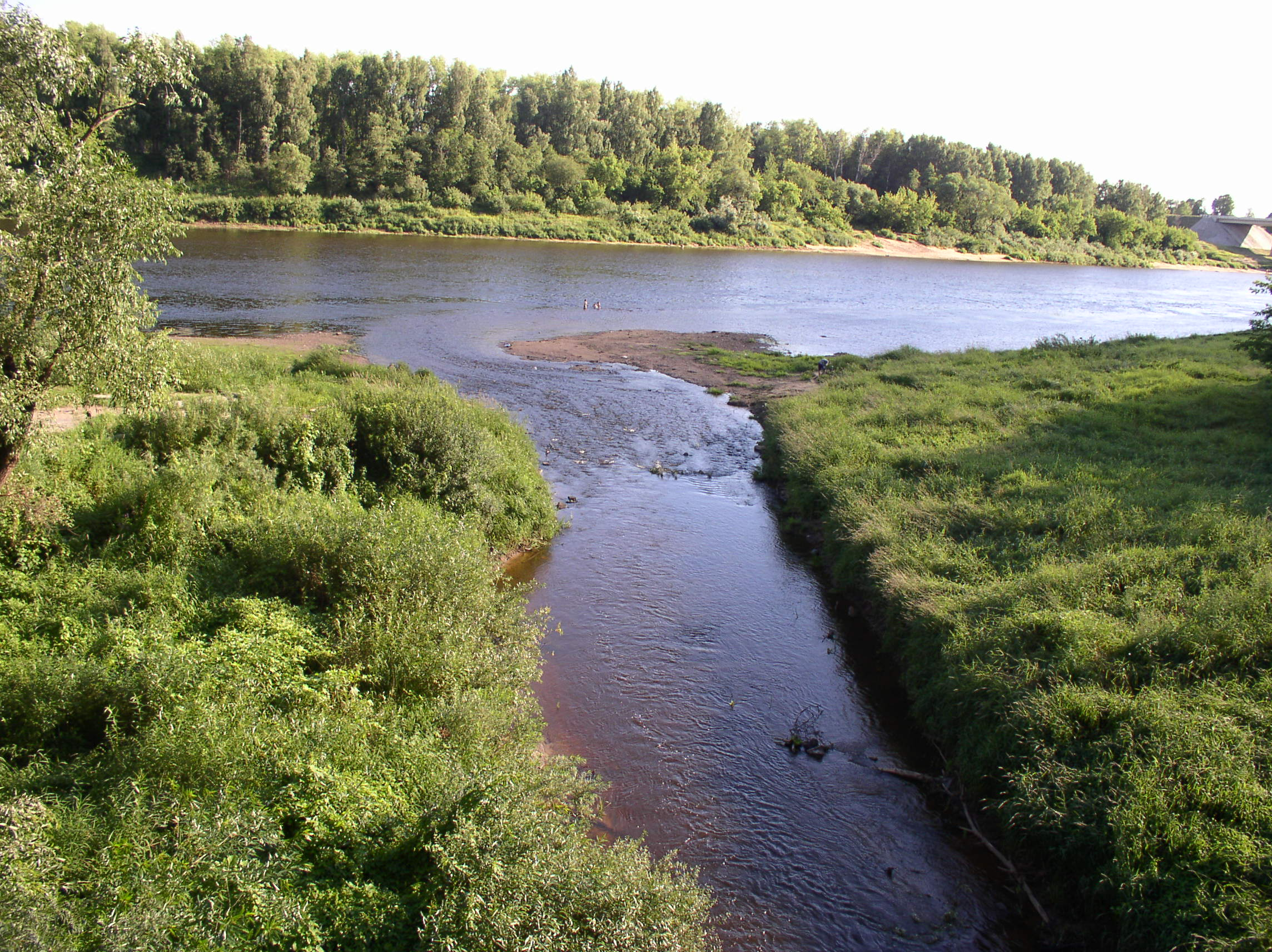 Junction of Dzvina and Palata rivers, Belarus.